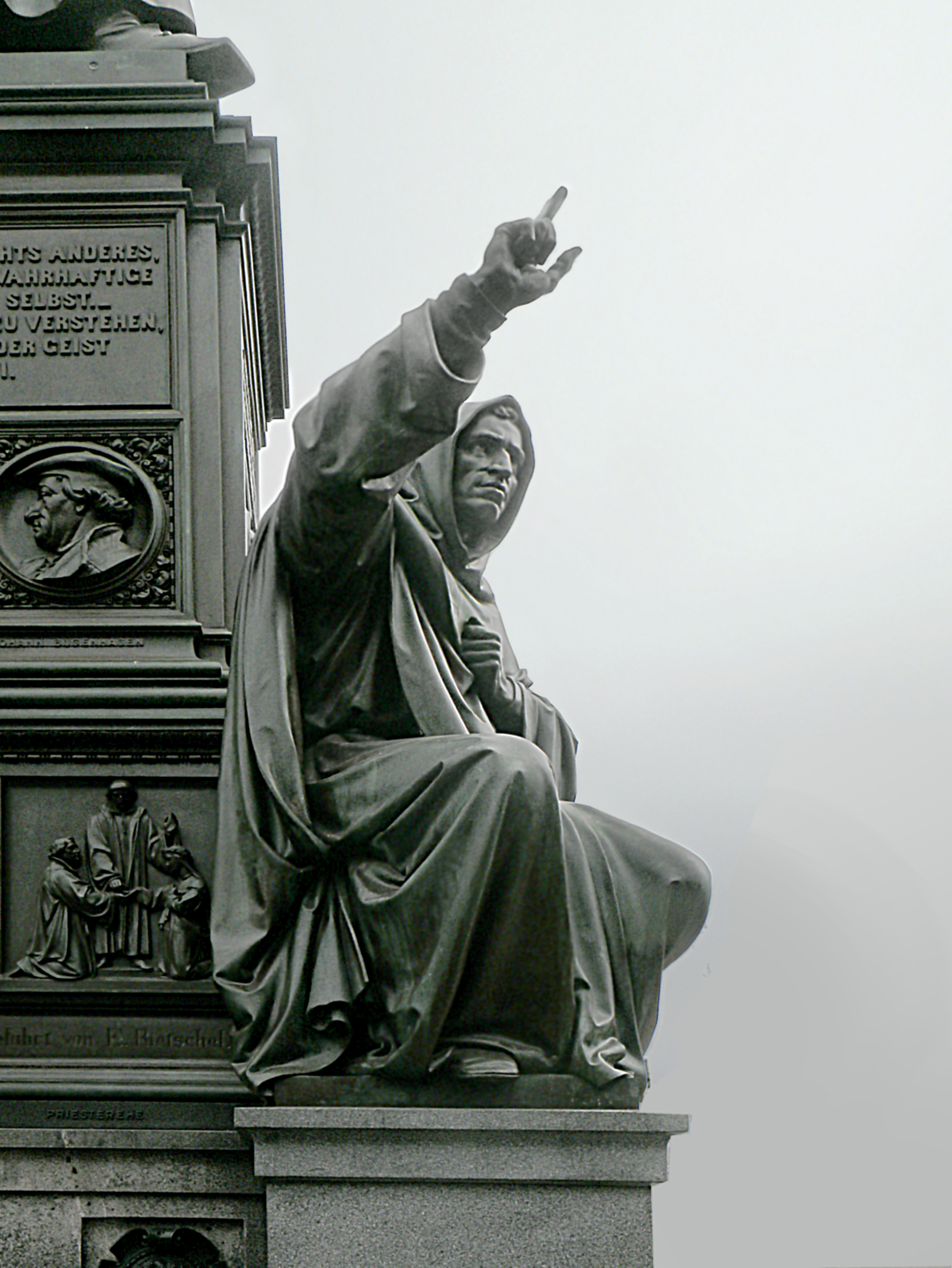 Girolamo Savonarola.Worms. Luther monument